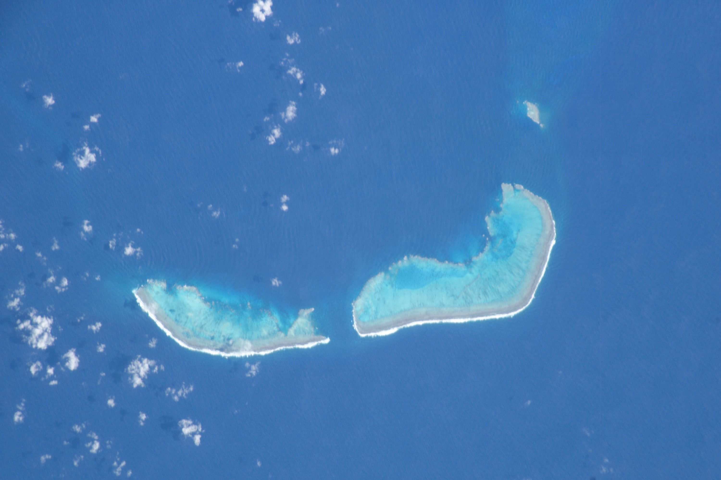 Mission: ISS006 CORAL SEA SOUTH BELLONA REEF Center Point Latitude: -22.0 Center Point Longitude: 159.5 Nadir Point Latitude: -22.7, Longitude: 158.8 (Negative numbers indicate south for latitude and west for longitude) Nadir to Photo Center Direction: Northeast Sun Azimuth: 100 (Clockwise angle in degrees from north to the sun measured at the nadir point) Spacecraft Altitude: 215 nautical miles (398 km) Sun Elevation Angle: 50 (Angle in degrees between the horizon and the sun, measured at the nadir point)